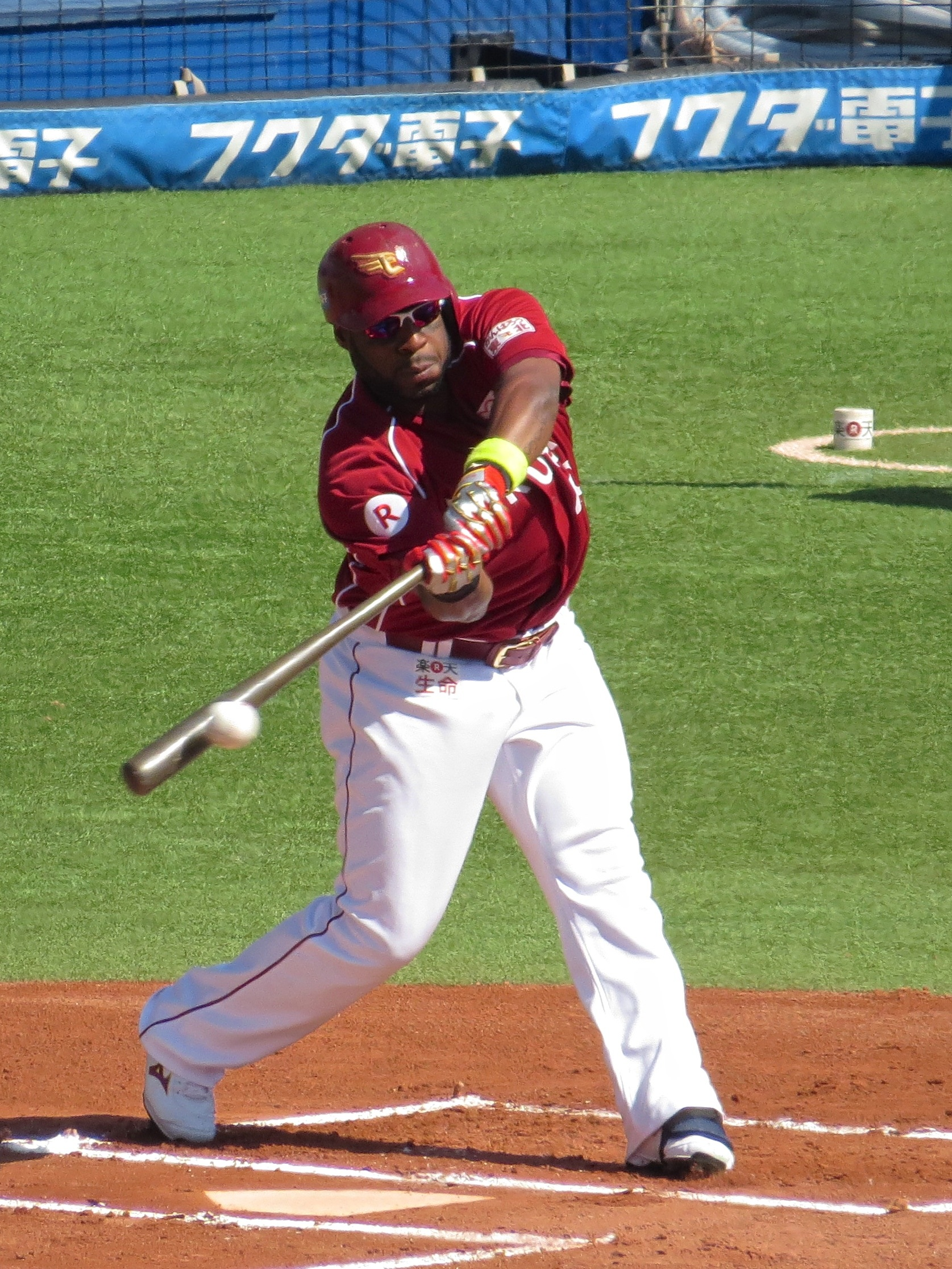 Zelous Wheeler, infielder of the Tohoku Rakuten Golden Eagles, at Chiba Marine Stadium.